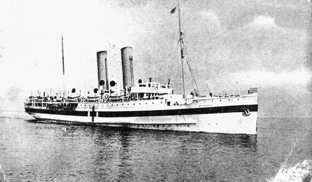 HM Hospital Ship St George. (Description supplied with photograph.) Possibly the St George that Cammell Laird in Birkenhead built in 1906 for the Great Western Railway. That St George was sold to Canadian Pacific in 1913, requisitioned in 1917 and sold to the Great Eastern Railway in 1919.